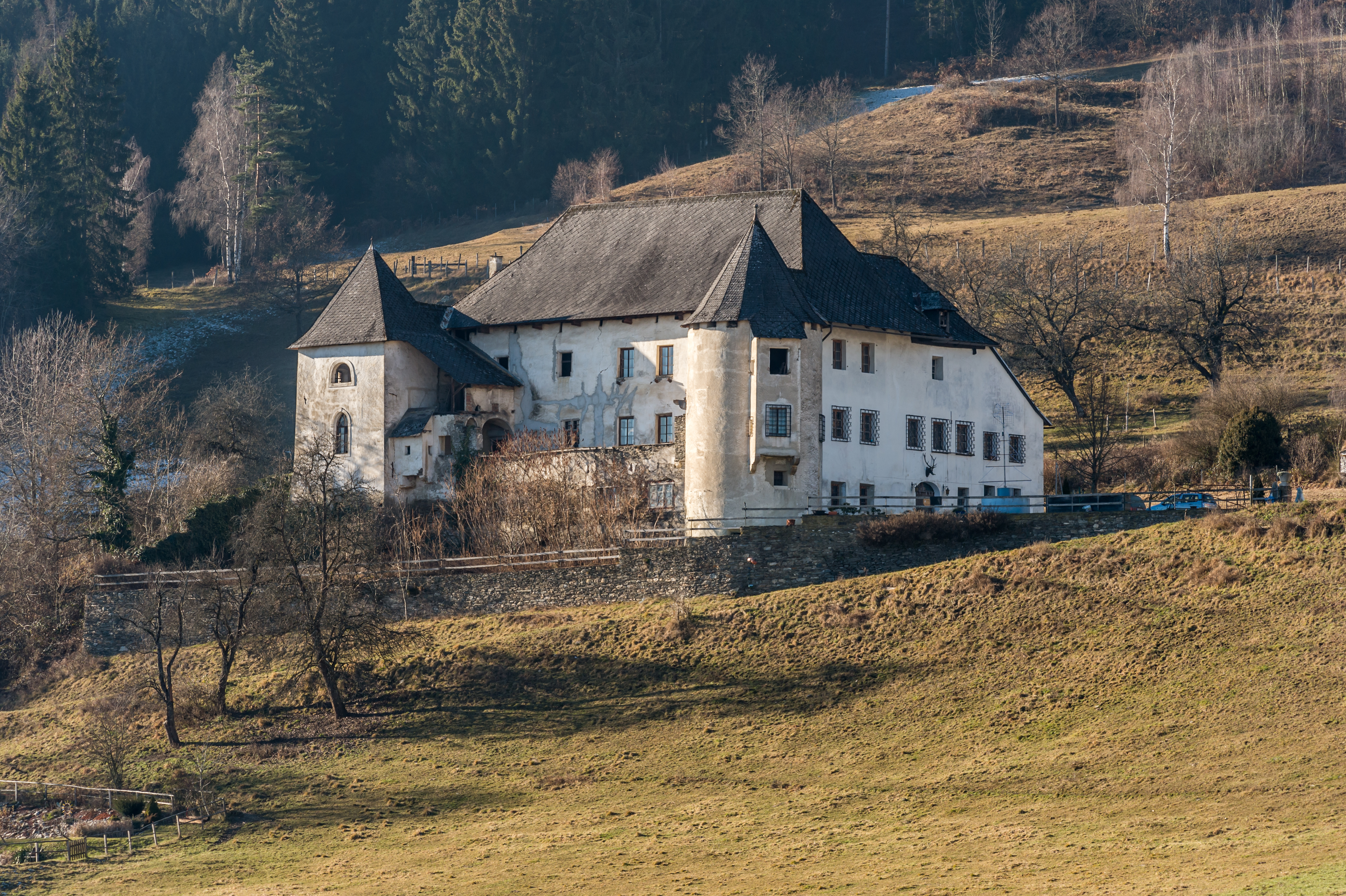 Castle in Dornhof #1, municipality Frauenstein, district Sankt Veit, Carinthia, Austria, EU